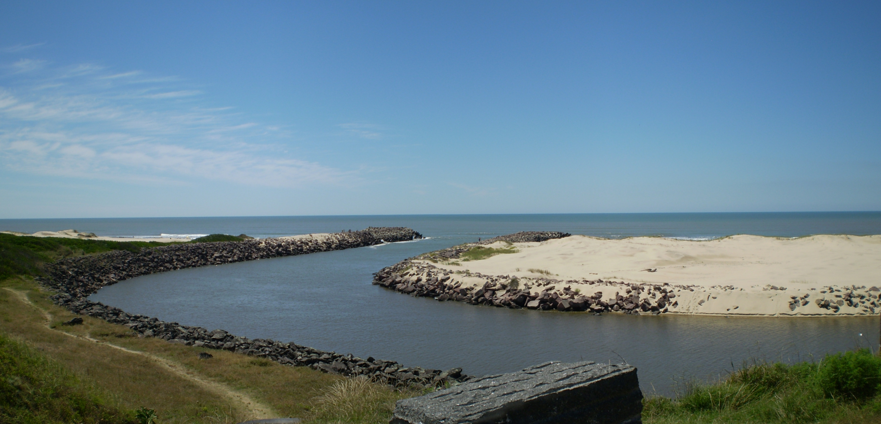 Arroio Chuí arriving ine the Atlantic Ocean, Barra do Chuí, district of Santa Vitória do Palmar, Rio Grande do Sul, Brazil.